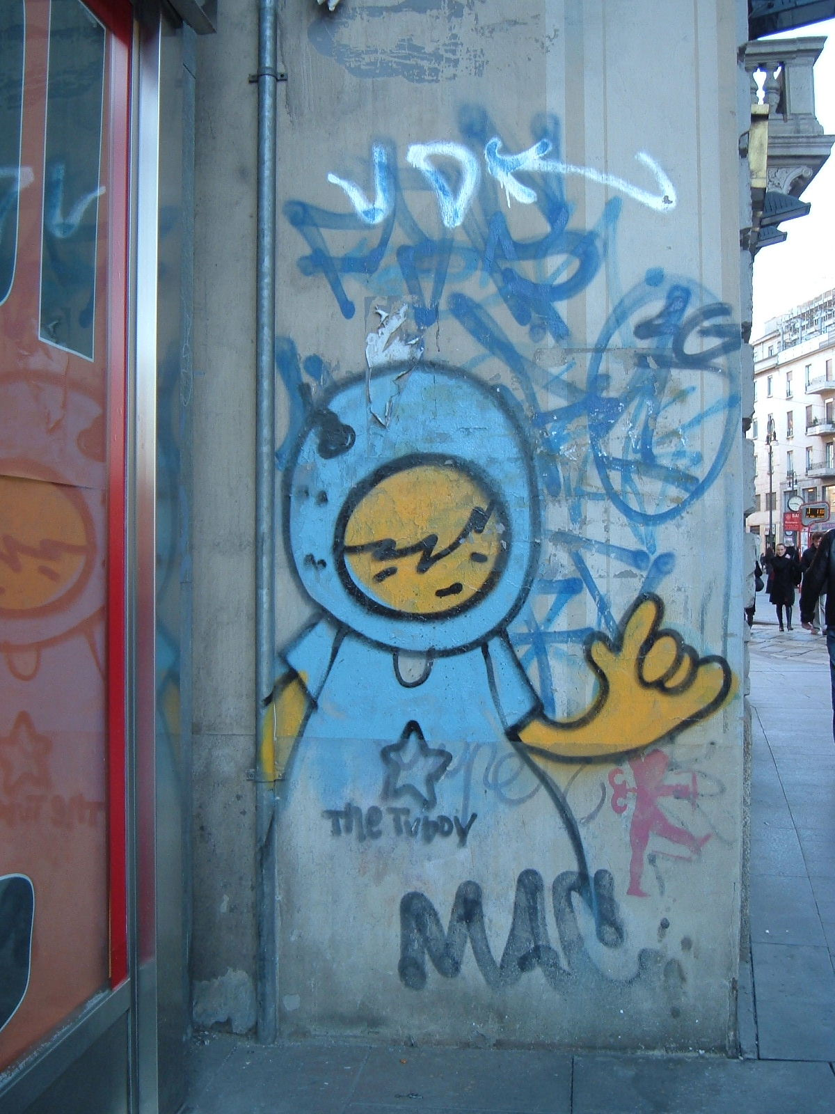 The Tvboy character bombed on a wall in Milan.